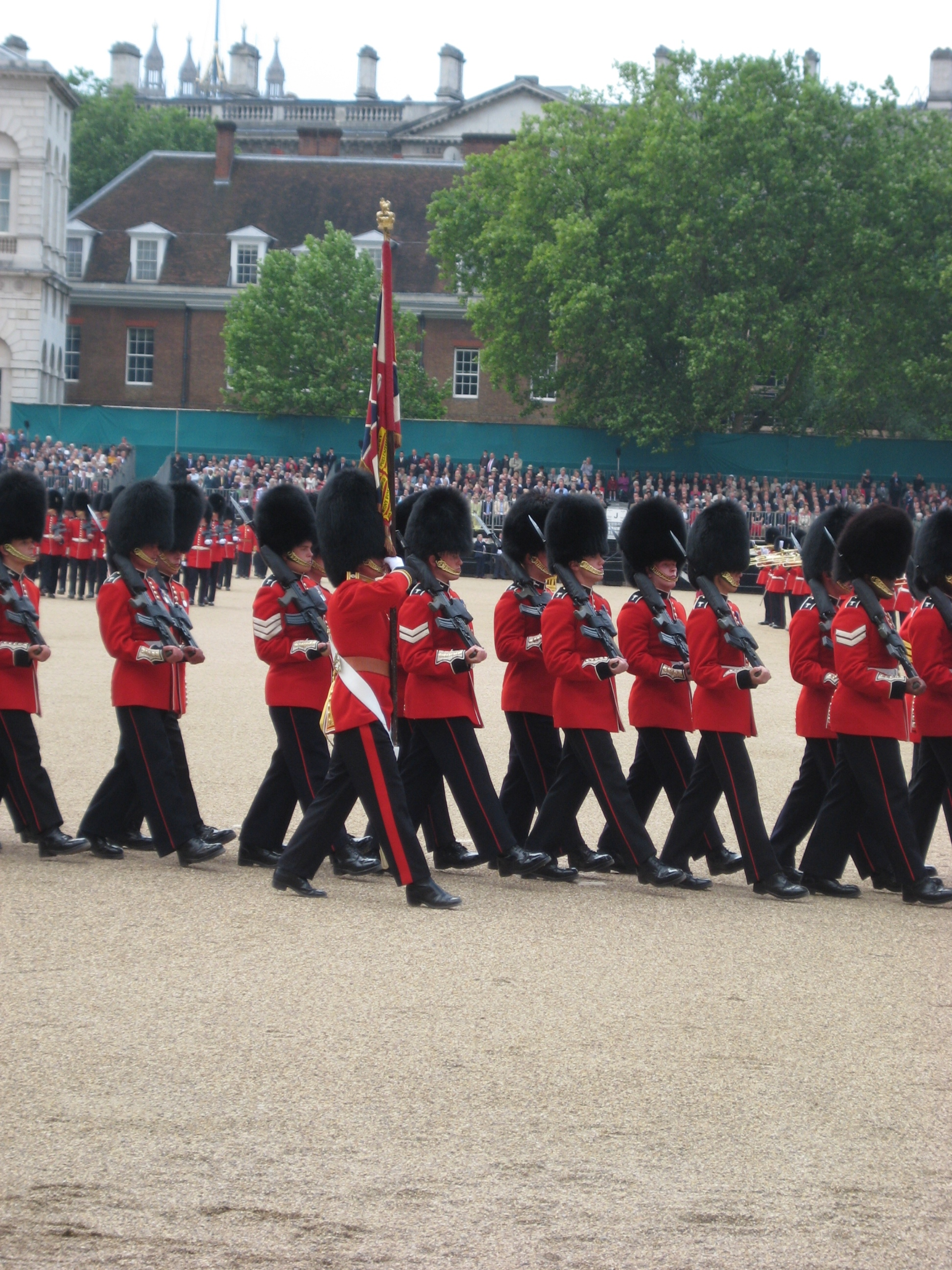 March Past in Slow Time at Trooping of the Colour (the Colonel's Review) 2008